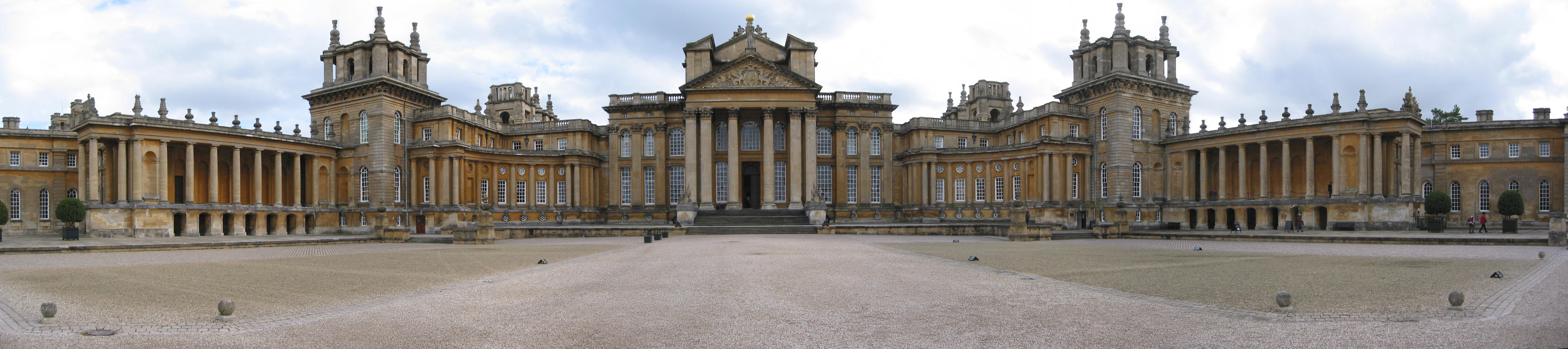 Blenheim Palace panorama